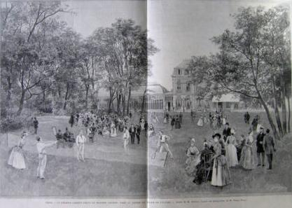 Garden party in the Elysée Palace's garden